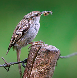 Certhia brachydactyla 15 apr 2005 22:59 Wikinature 248x252 (36672 bytes) ( eigenwerk Monique Bogaerts)